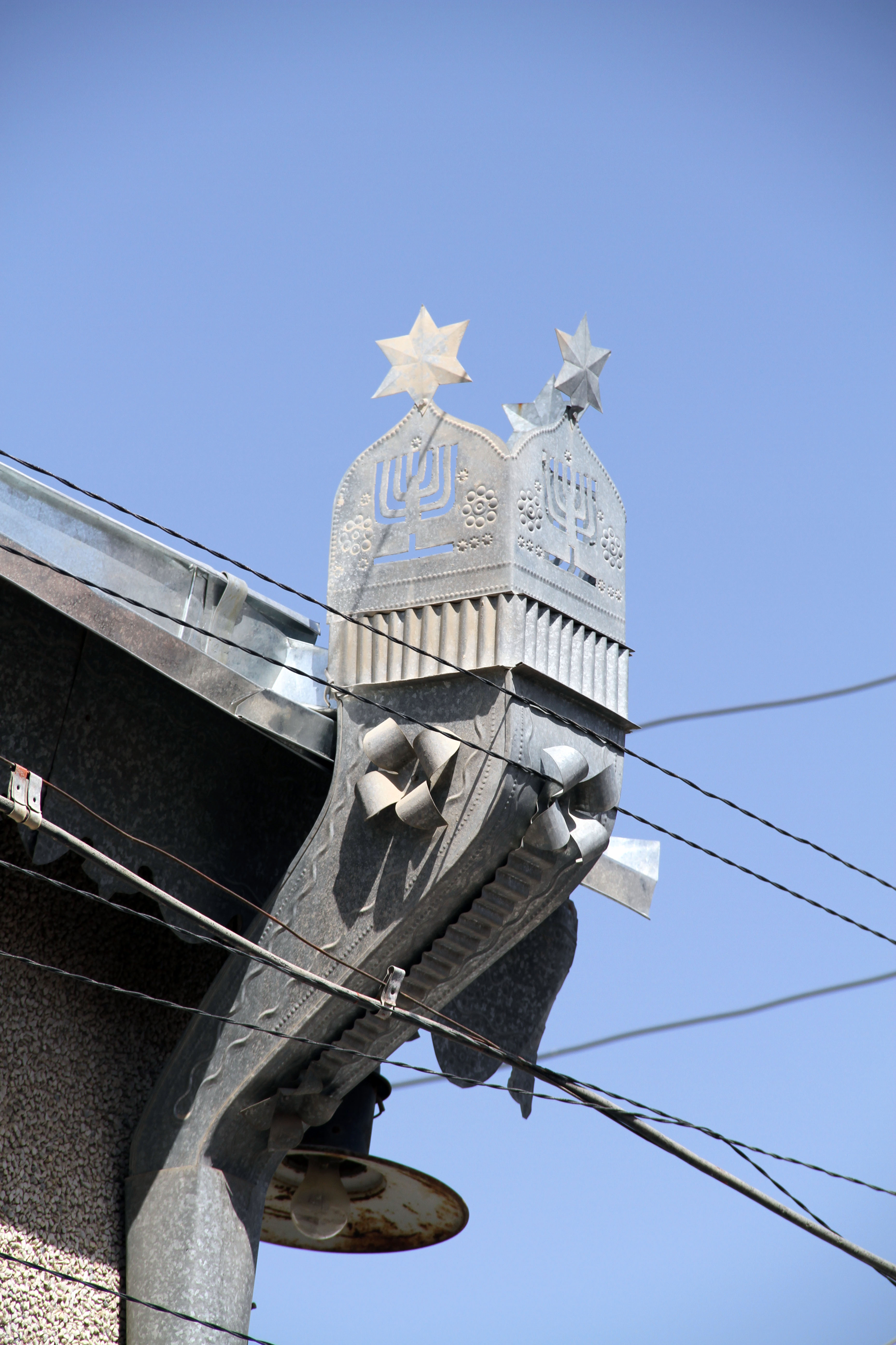 Synagogue in Samarkand